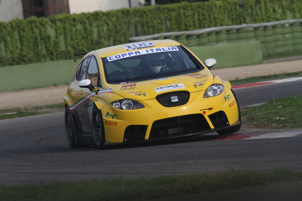 Fabiani's and Pisani's Seat Leon in Imola.